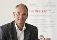 Writer, Economist and CEO of New Horizons Computer Learning Centers D/A/CH